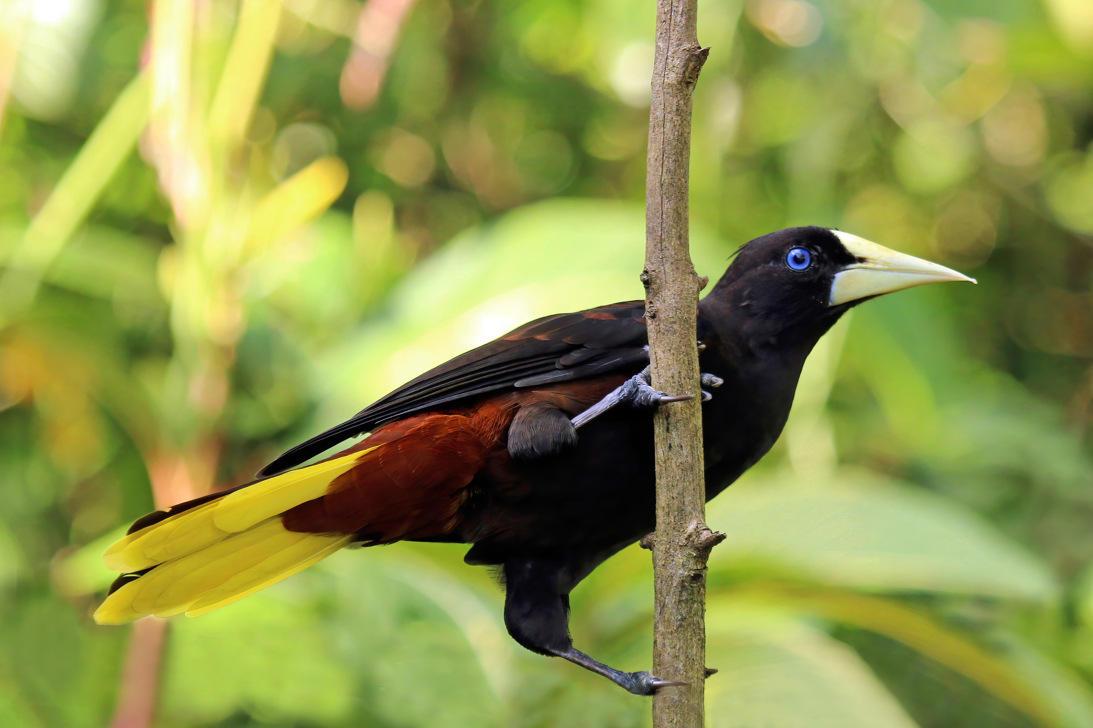 Crested oropendola (Psarocolius decumanus insularis), Trinidad